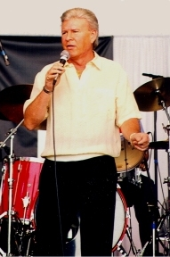 Bobby Rydell - 1998, Photo by Alan C. Teeple User:ACT1 * 16:24, 2 August 2005 ACT1 193x288 (45174 bytes) (Bobby Rydell - 1998)